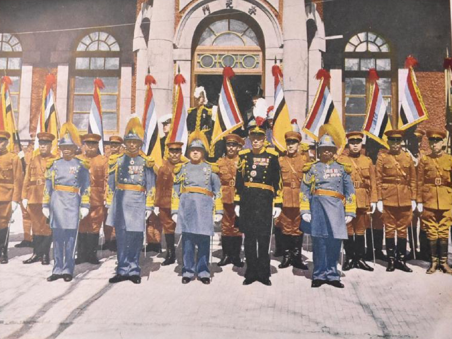 General Officers of Manchukuo Imperial Army